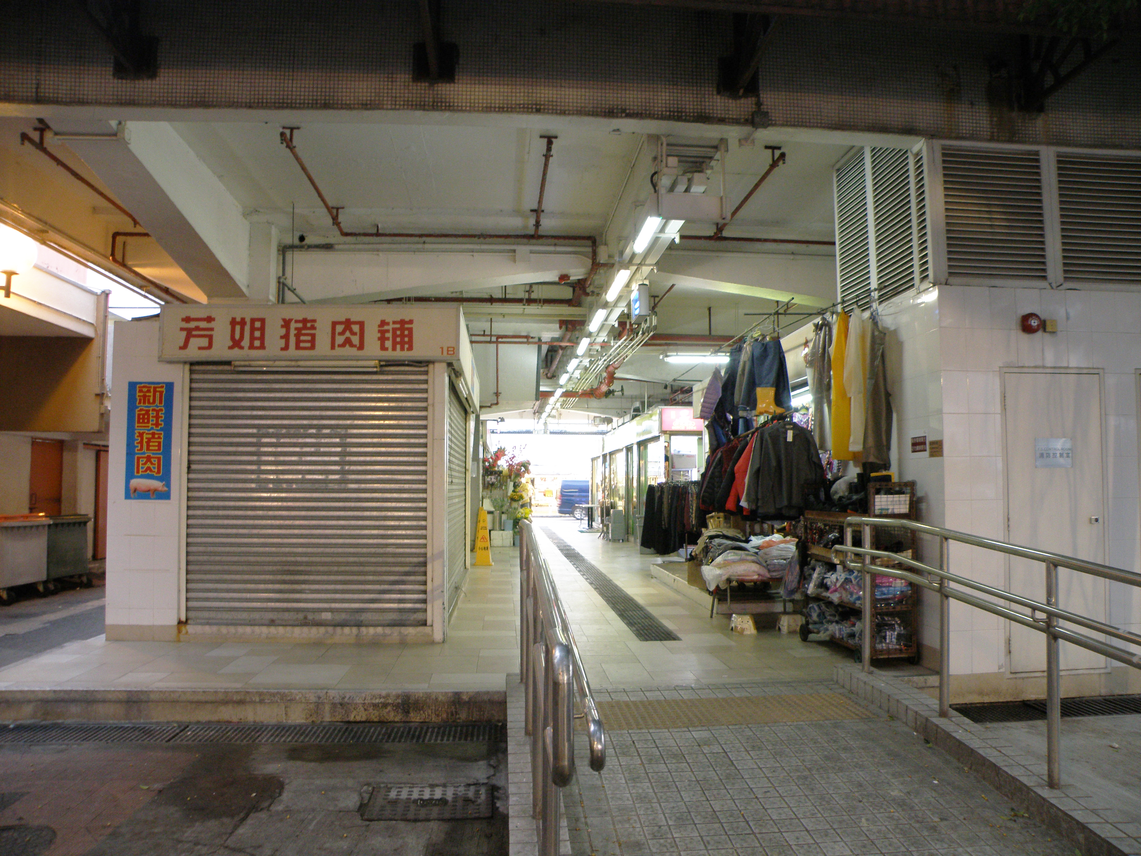 Sam Shing Market in Tuen Mun, Hong Kong.